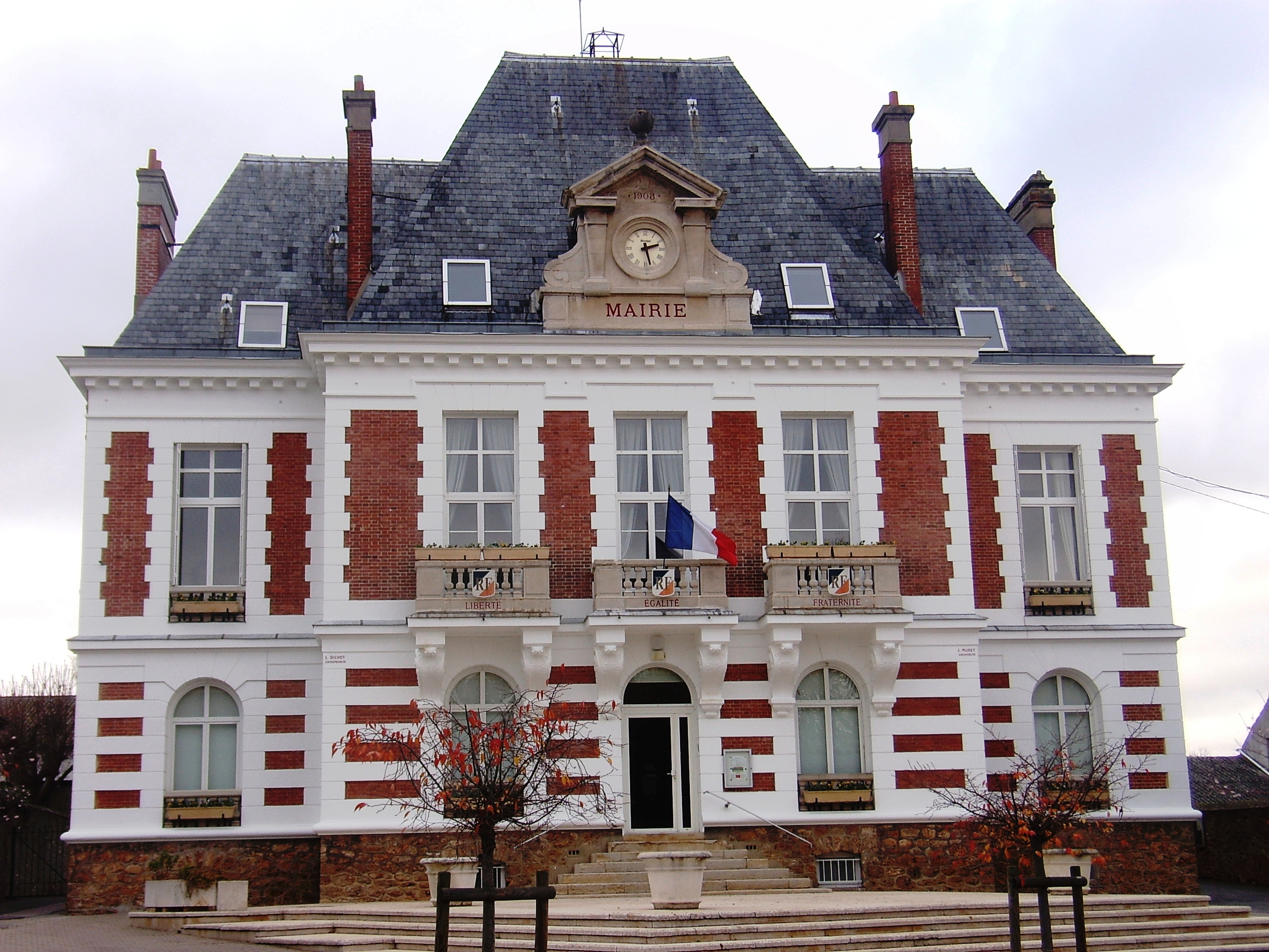 Saulx-les-Chartreux Townhall